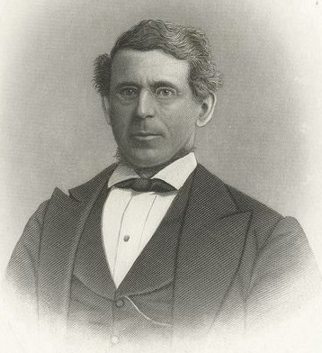 Ephraim L. Acker (Pennsylvania Congressman)